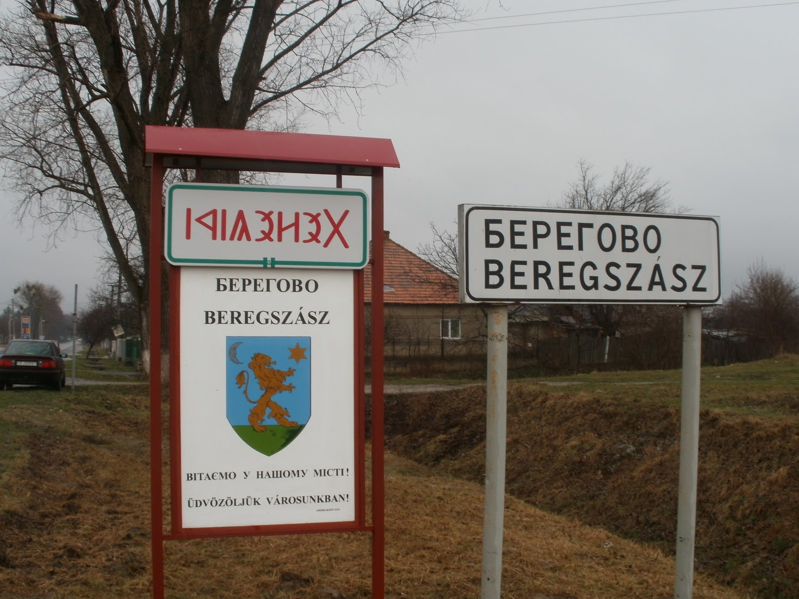 City limit tables in Berehove, Ukraine. Upper left table: traditional Hungarian letters (rovas).